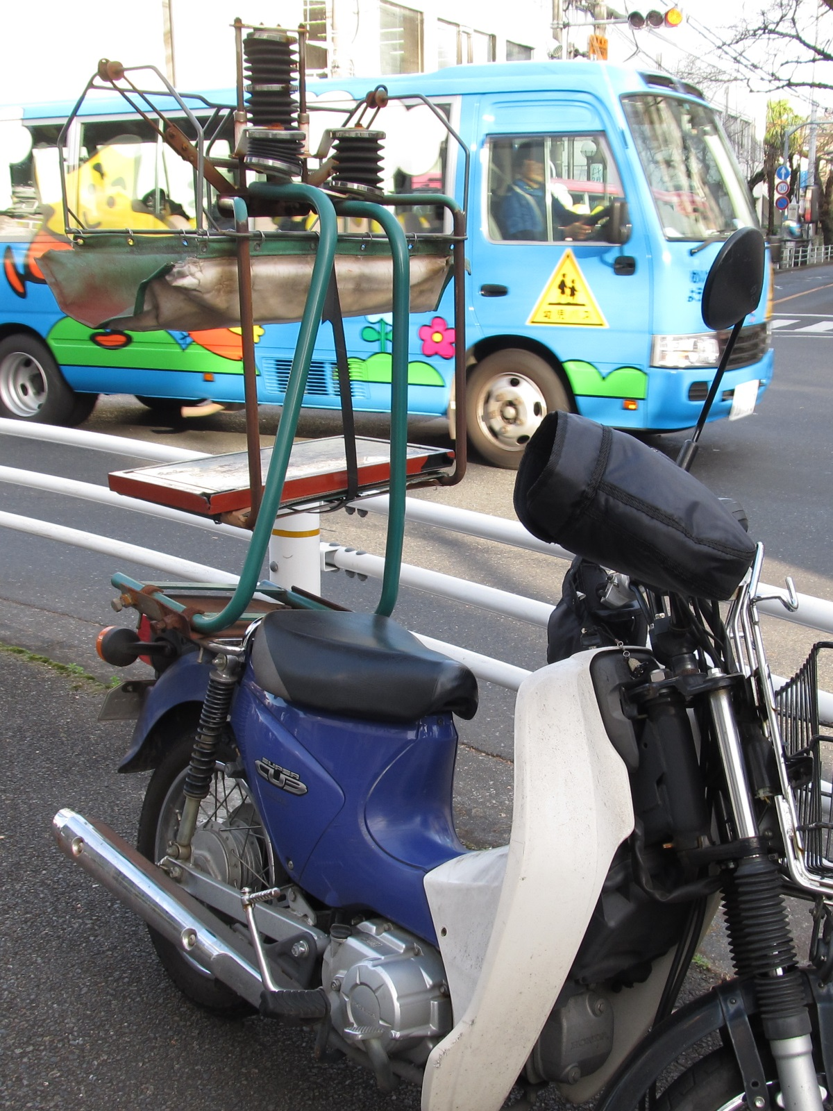 Home delivery of cooked foods machine, ramen, sushi, soba, udon